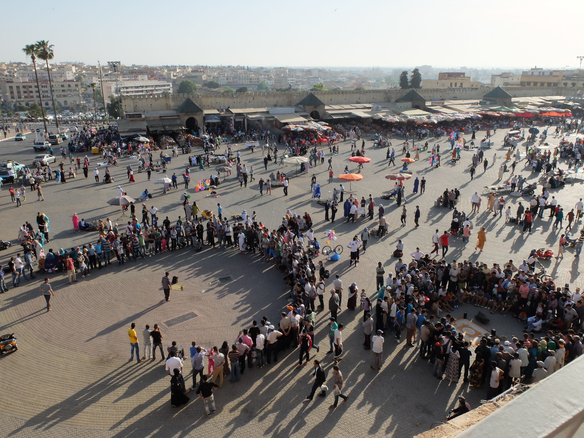 Place el-Hedim, seen from above, at dusk, with crowds gathering around storytellers and entertainers